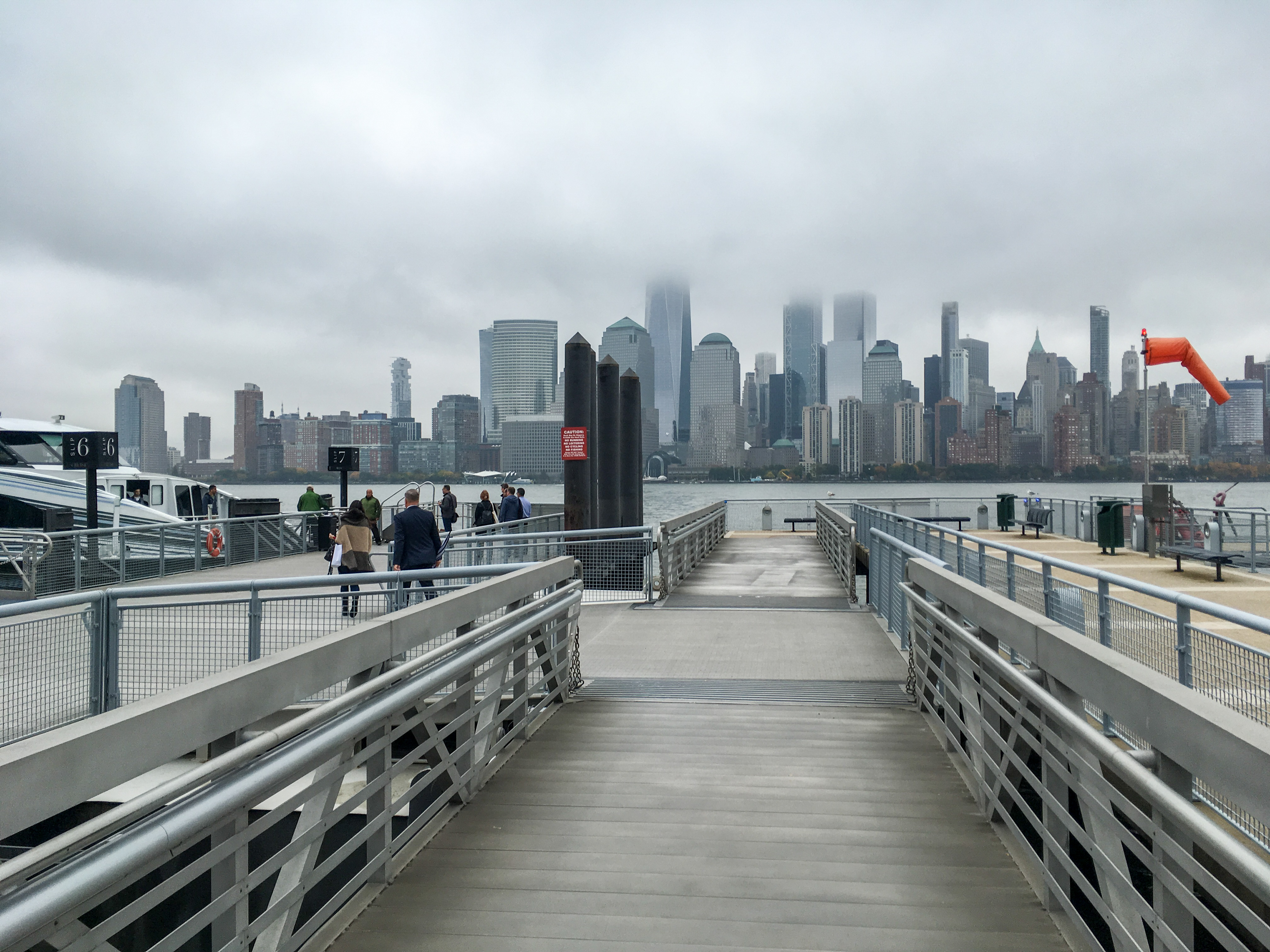 Downtown Manhattan Skyline seen from Paulus Hook